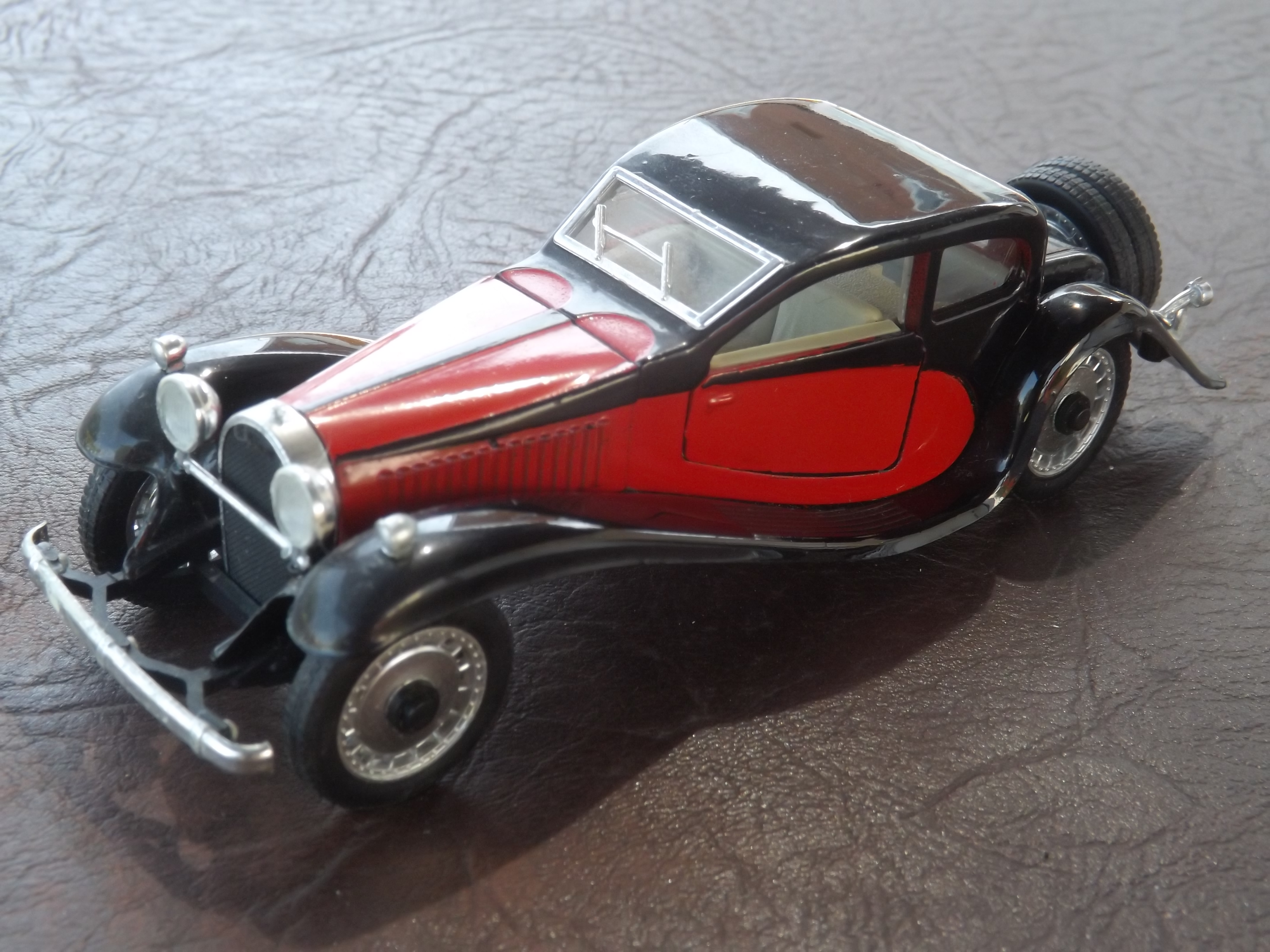 Bugatti Type 50 Profilee 1933 diecast by Rio. Made in Italy. 1:43 scale